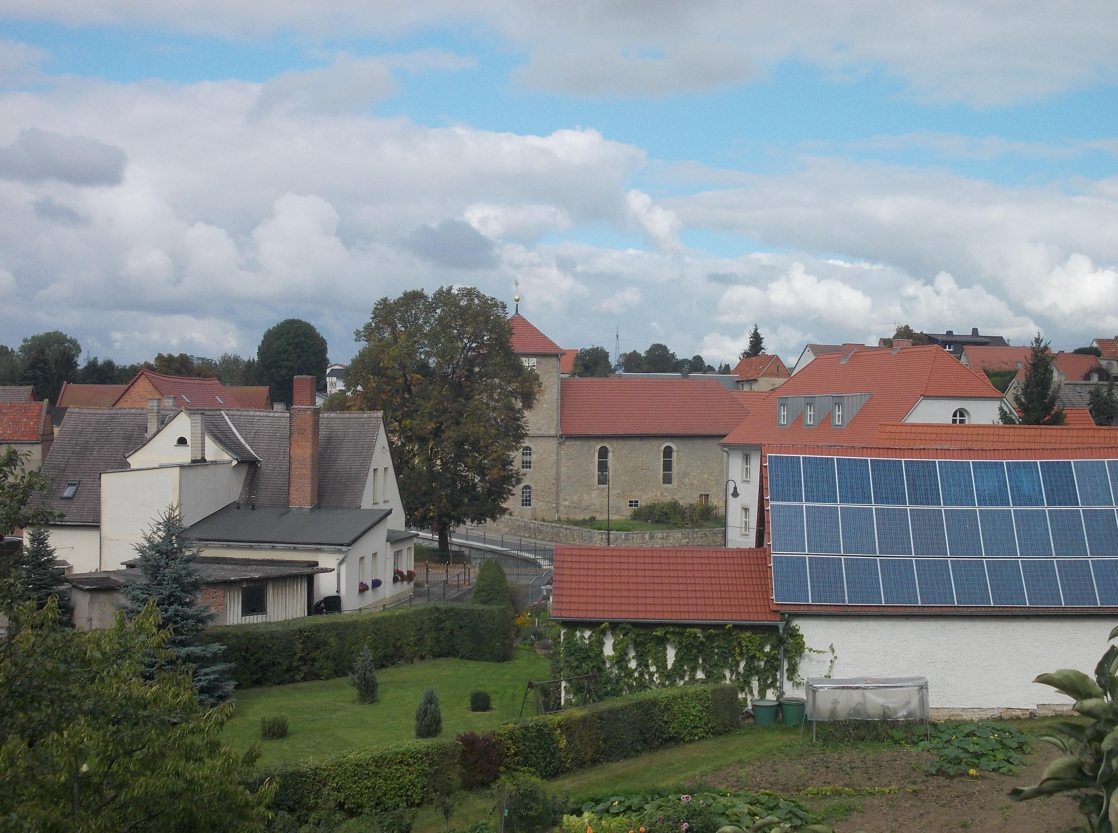 Rehehausen (Lanitz-Hassel-Tal, district: Burgenlandkreis, Saxony-anhalt) from the south-east